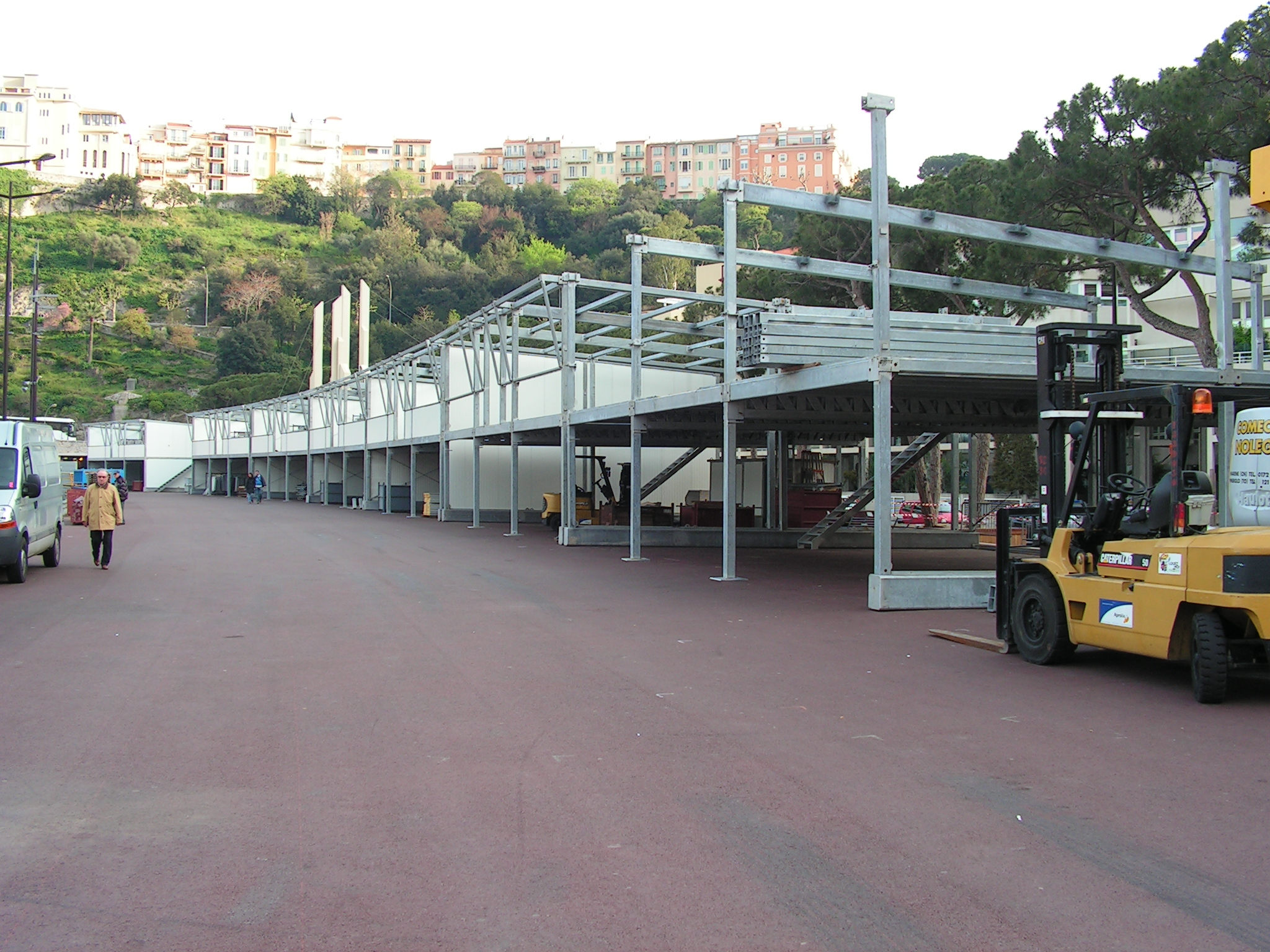 Construction of the pit lane for the Monaco GP 2006